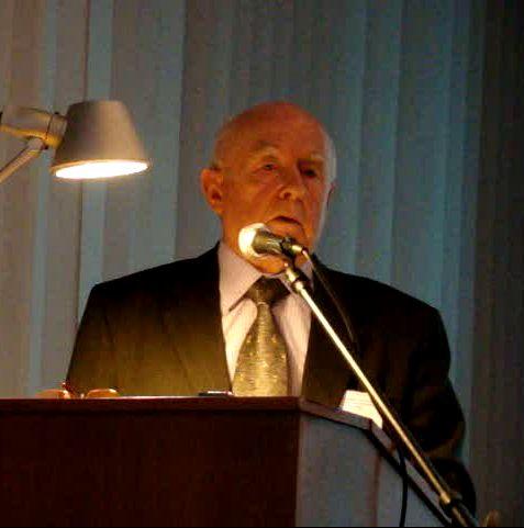 Prof. Vilya Gelbras, russian expert in Chinese society and economics